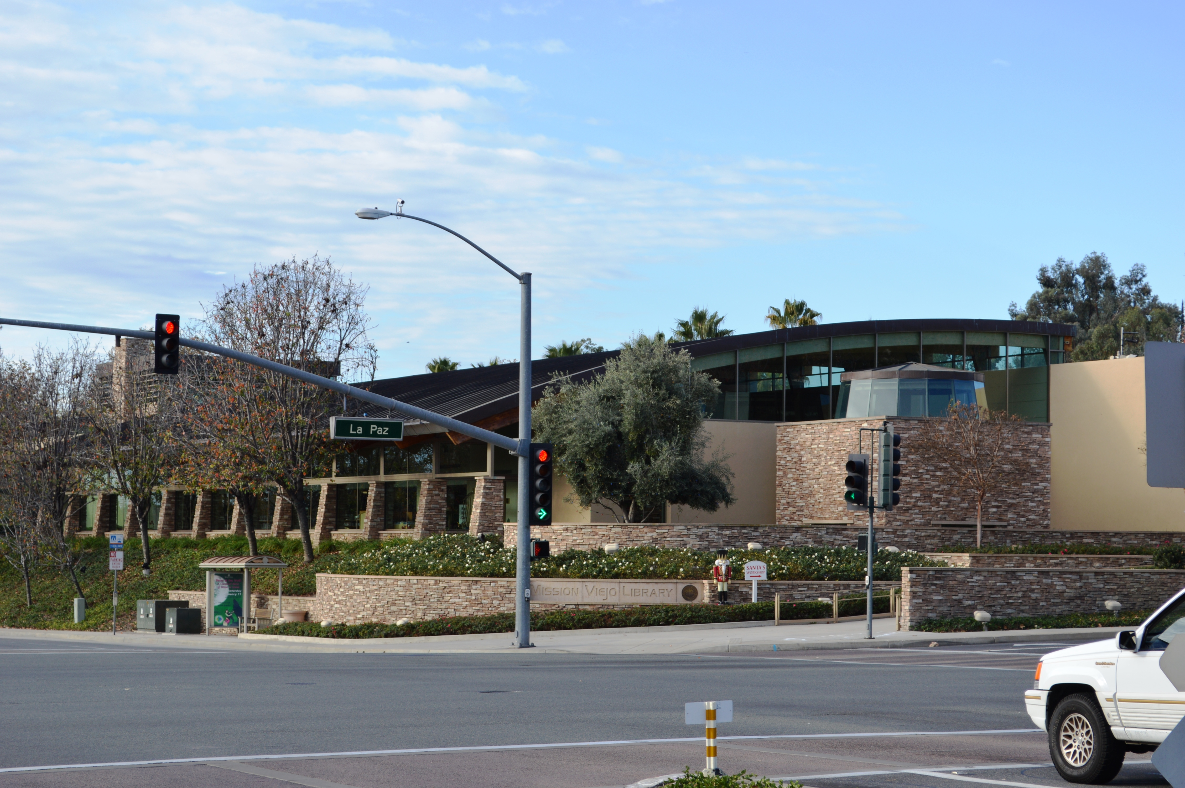 Mission Viejo Library as seen from the corner of Marguerite Parkway and La Paz Road.